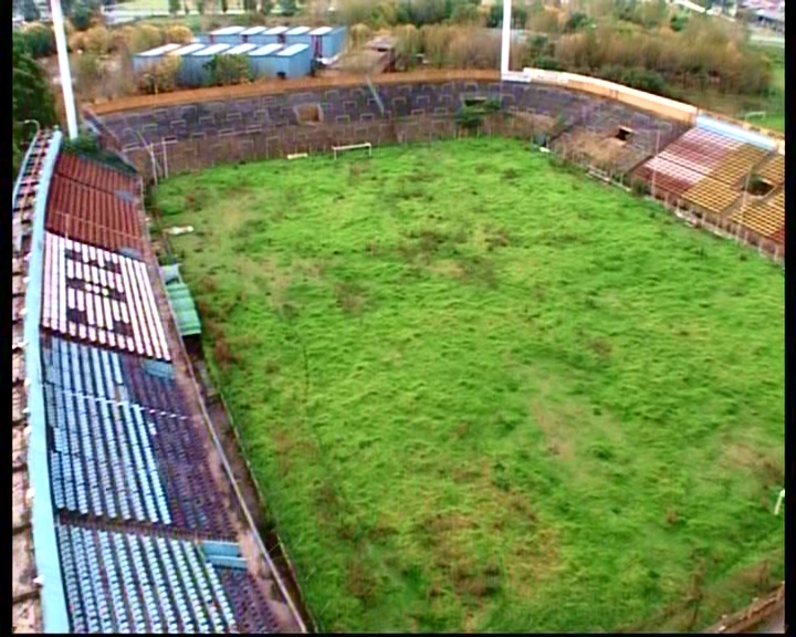 This is an aereal photo of the Estadio España from June 2007